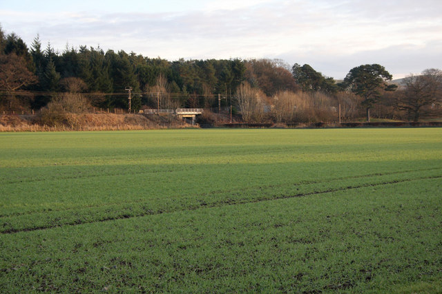 Field near Newton Looking across an autumn sown field towards the West Coast Main Line running to the west of Wamphraymoor Plantation. The old Wamphray station, now a private dwelling, is hidden by the trees just to the right of the bridge.